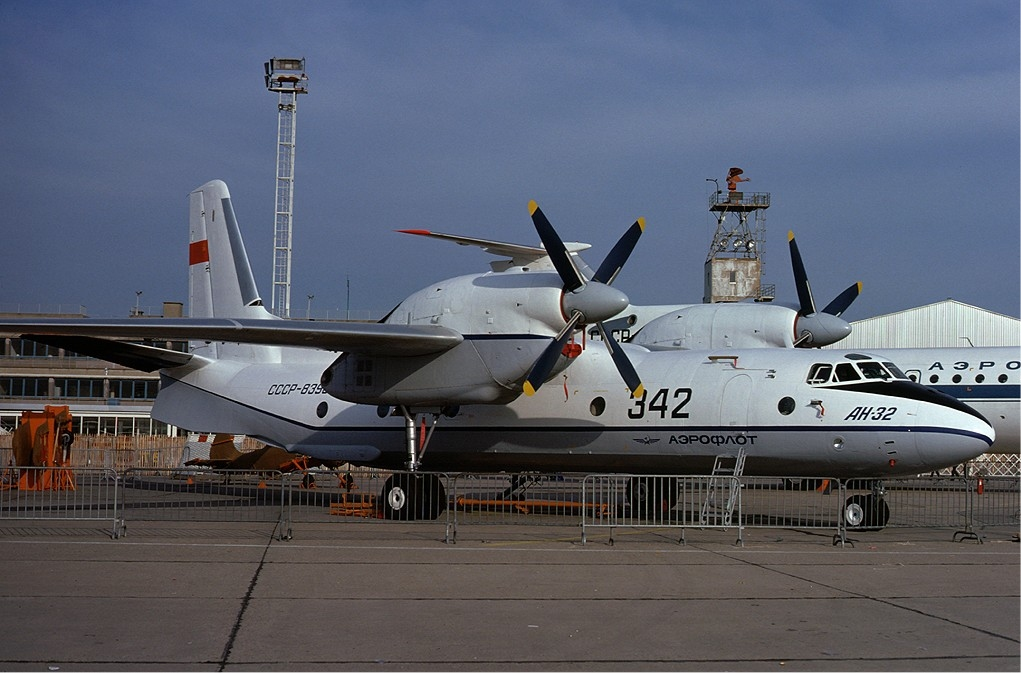 An Antonov An-32 of Aeroflot at Le Bourget Airport